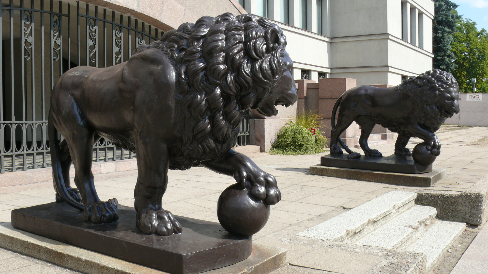 Lions given by count Tiskevicius to Vytautas the Great War museum